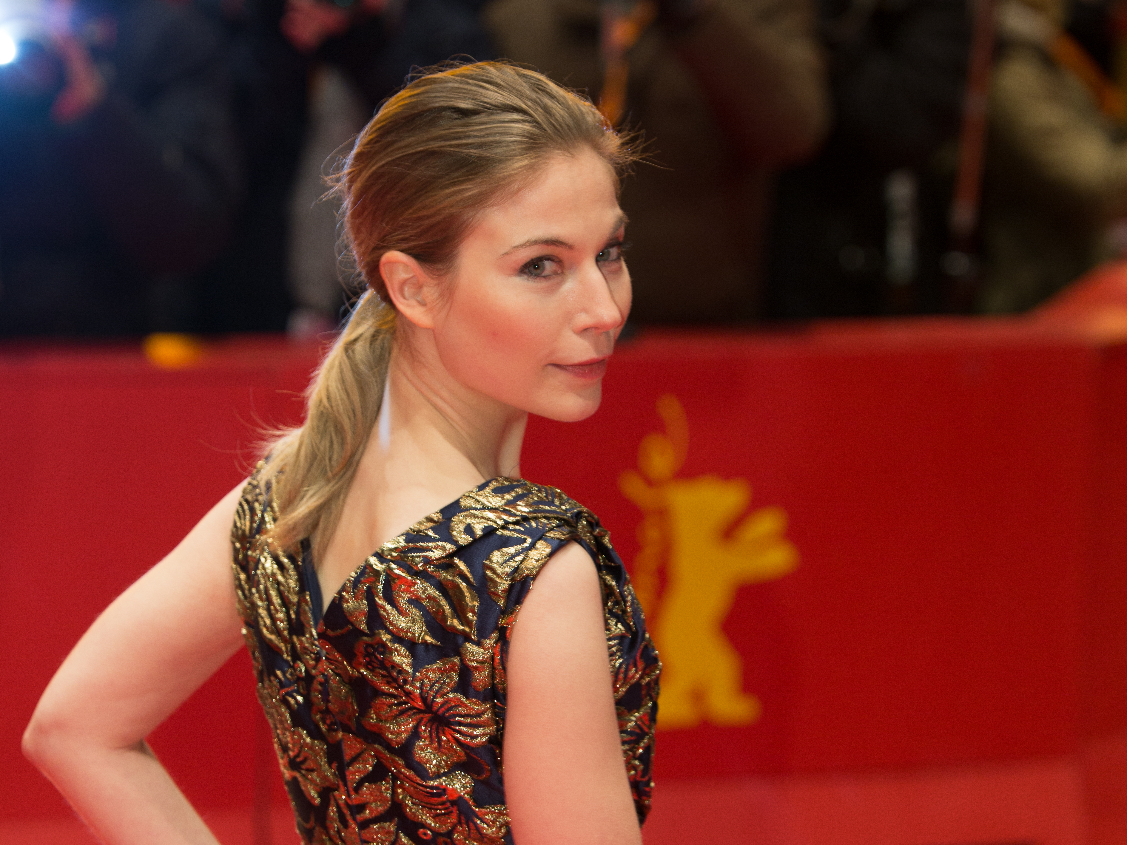 Nora von Waldstätten presenting the movie Wilde Maus at the Berlinale 2017